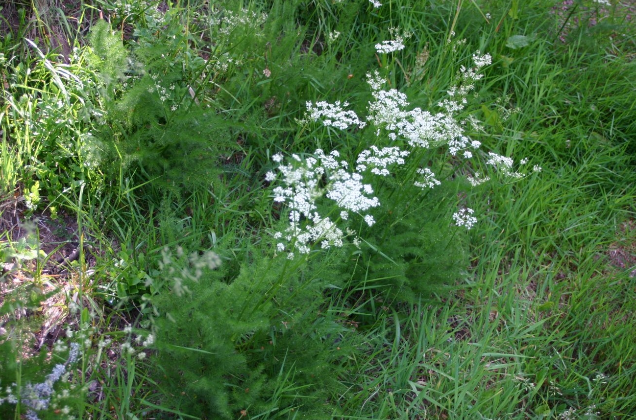 Meum athamanticum: Habit.